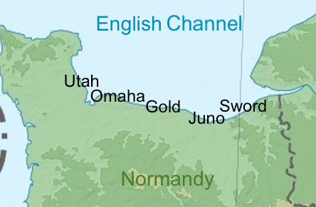 Map of D-Day beaches based on France blank map